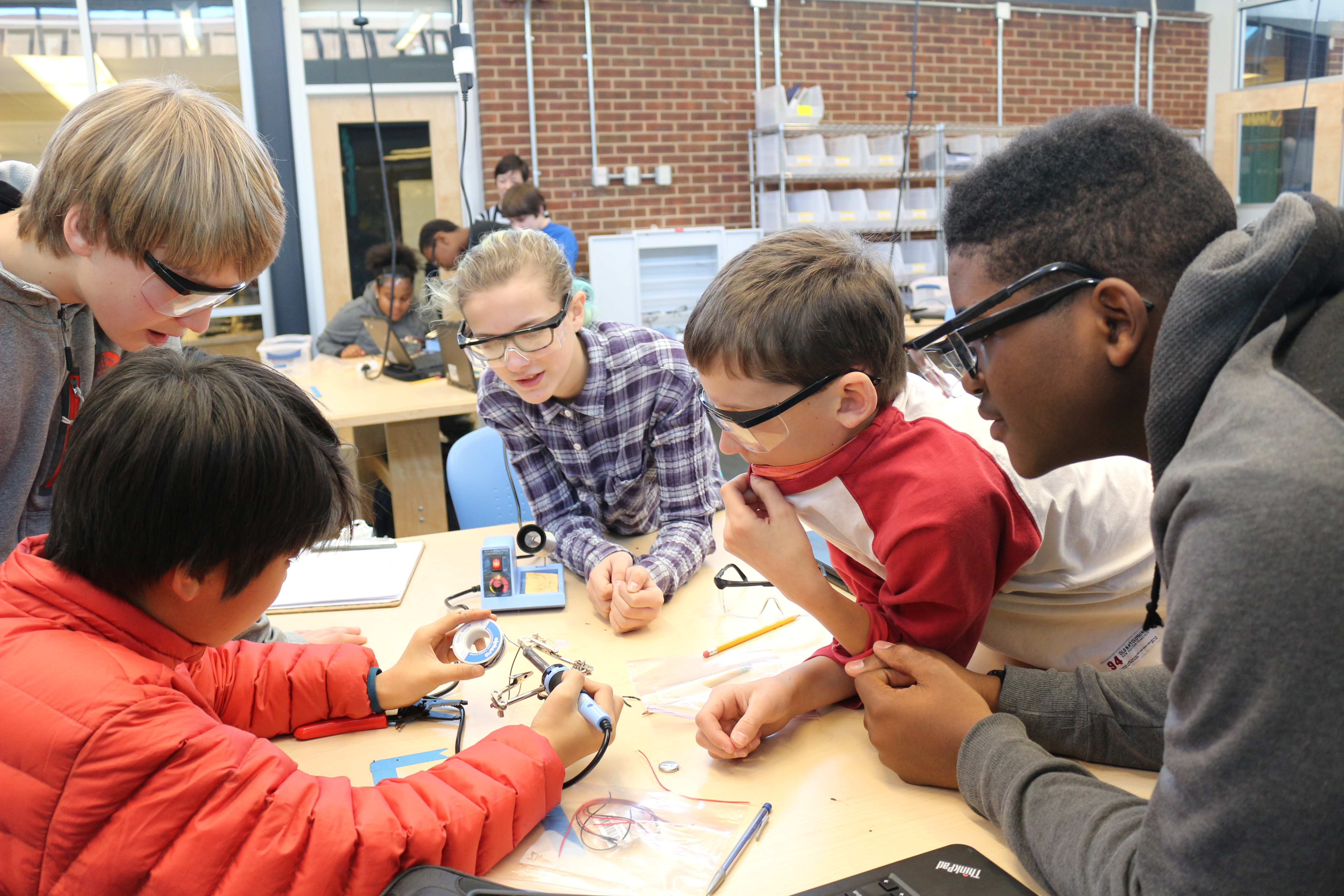 Charlottesville: Buford Middle School students in our engineering program that is part of a partnership with Albemarle County Public Schools, Fluvanna CPS, the University of Virginia, and the Smithsonian Institution